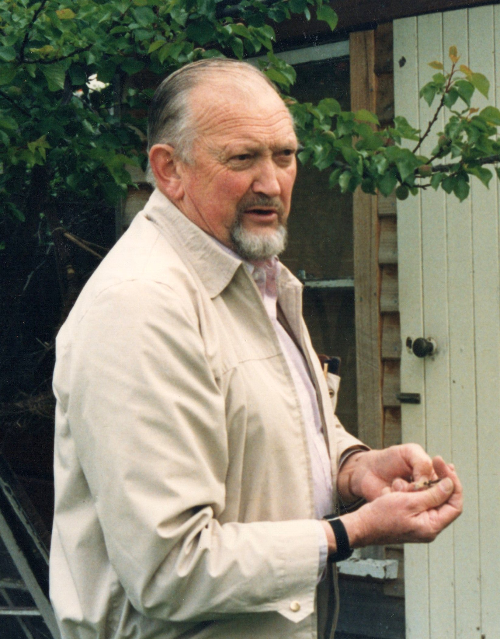 John Meredith, folklorist, photographed in Hobart, Tasmania, 1987 (Tony Rees photograph)